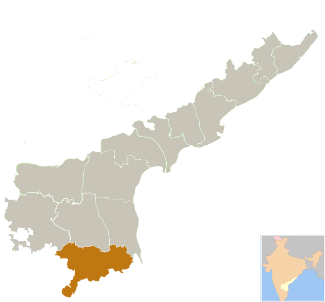 Chittor district in Andhra Pradesh (Officially from 2nd June 2014)